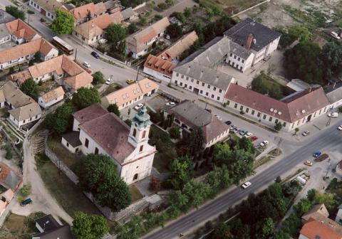 Etyek, Hősök tere and and its surroundings, Hungary, aerialphotography. The main square of the village. Elementary school, former village hall, social building, and the Church hill include parish building(s) and the Parish church